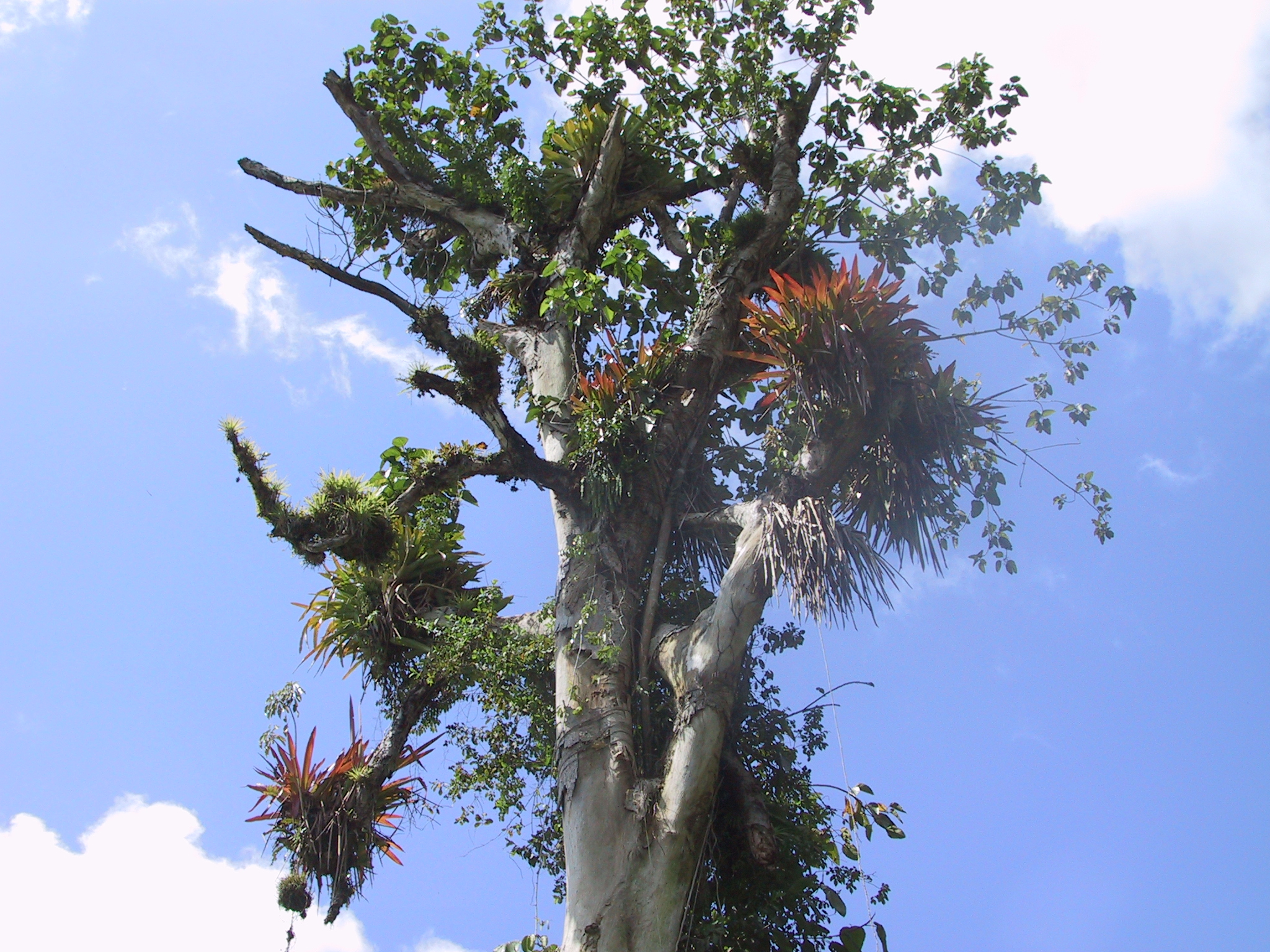 Description: Bromeliaceae on a tree, Costa Rica (Atlantic area) Source: self made Date: 20021203 Author = --Ruestz 18:53, 6 June 2006 (UTC)